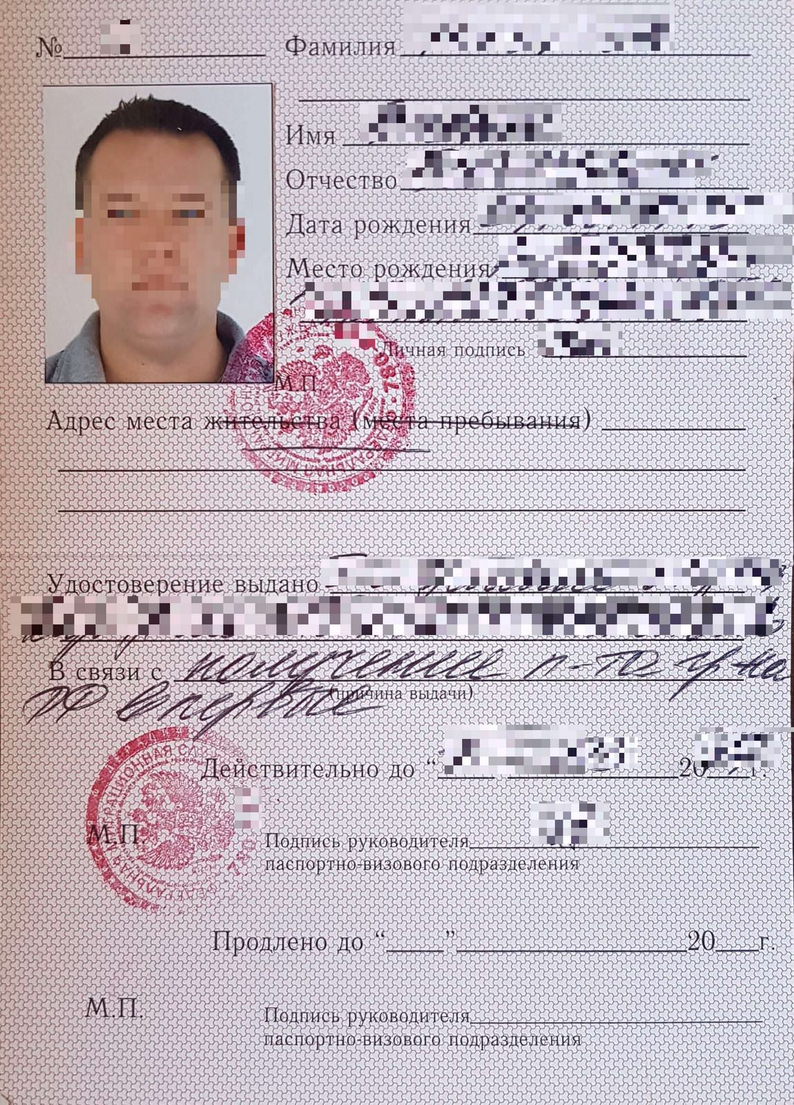 Interim ID of a Russian Citizen